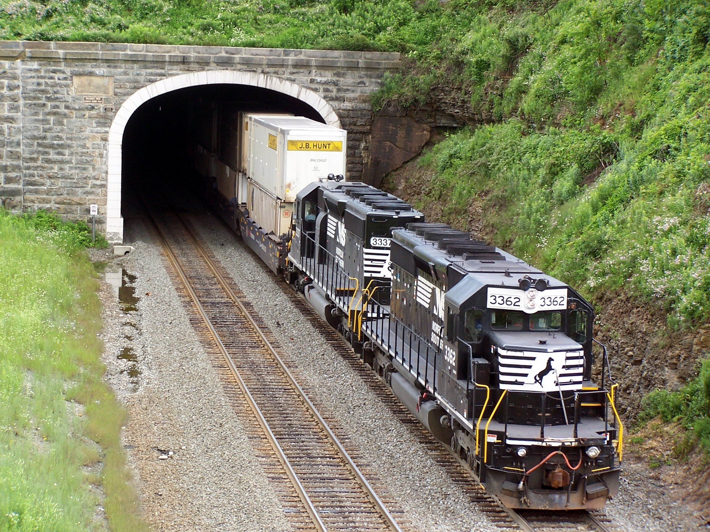 Entering the tunnel at Gallitzin, PA. This is the rear of the train as these two engines are "helpers".